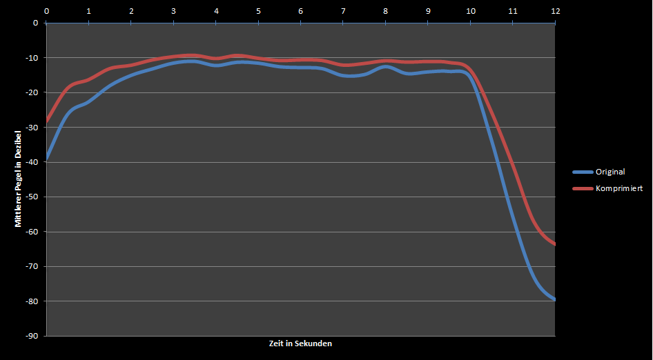 Comparison of levels of chromatic scale down (digital piano) with maximum recording level: linear (lower graph, blue); enhanced loudness (upper graph, red)